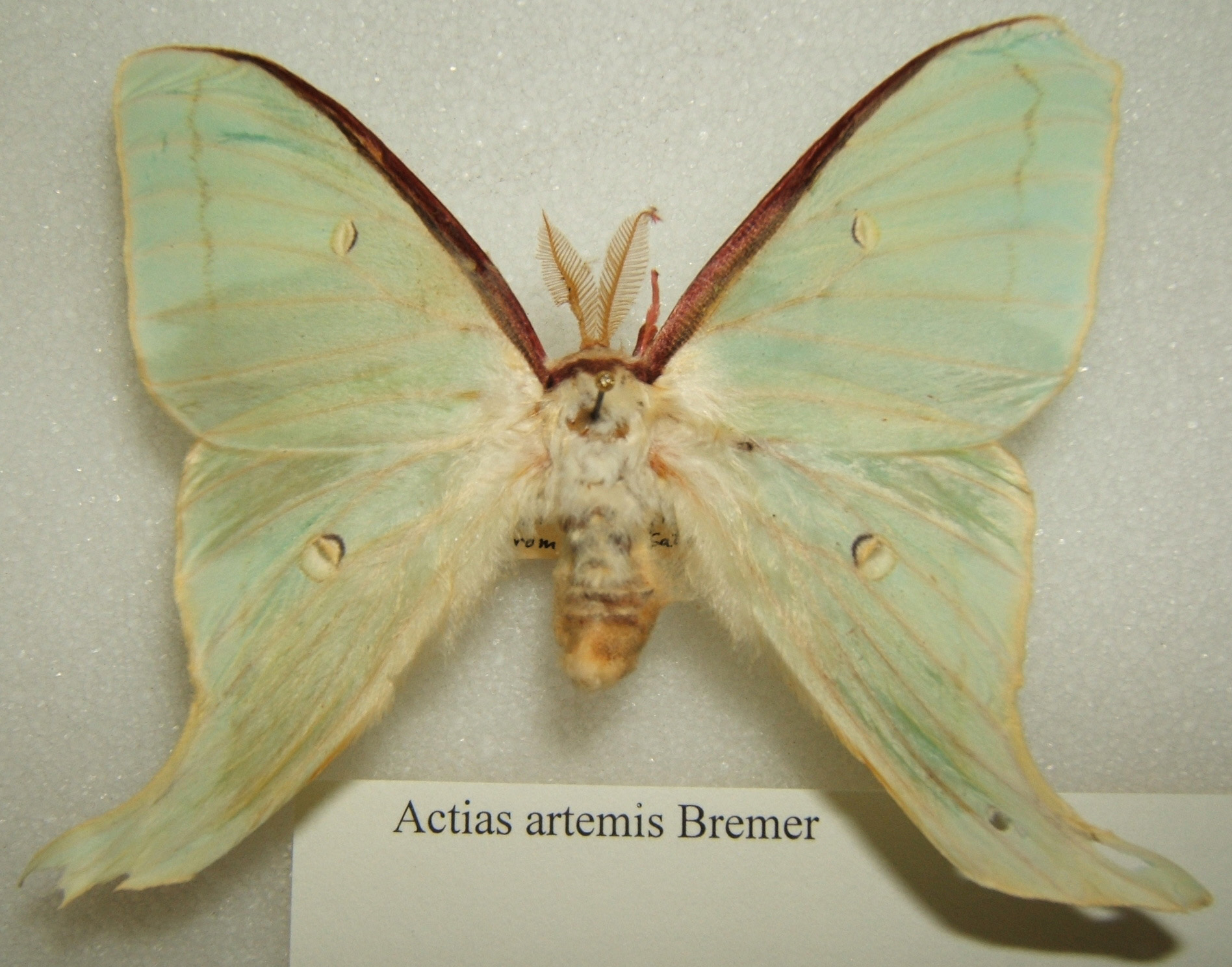 Actias artemis adult male taken by Shawn Hanrahan at the Texas A&M University Insect Collection in College Station, Texas.